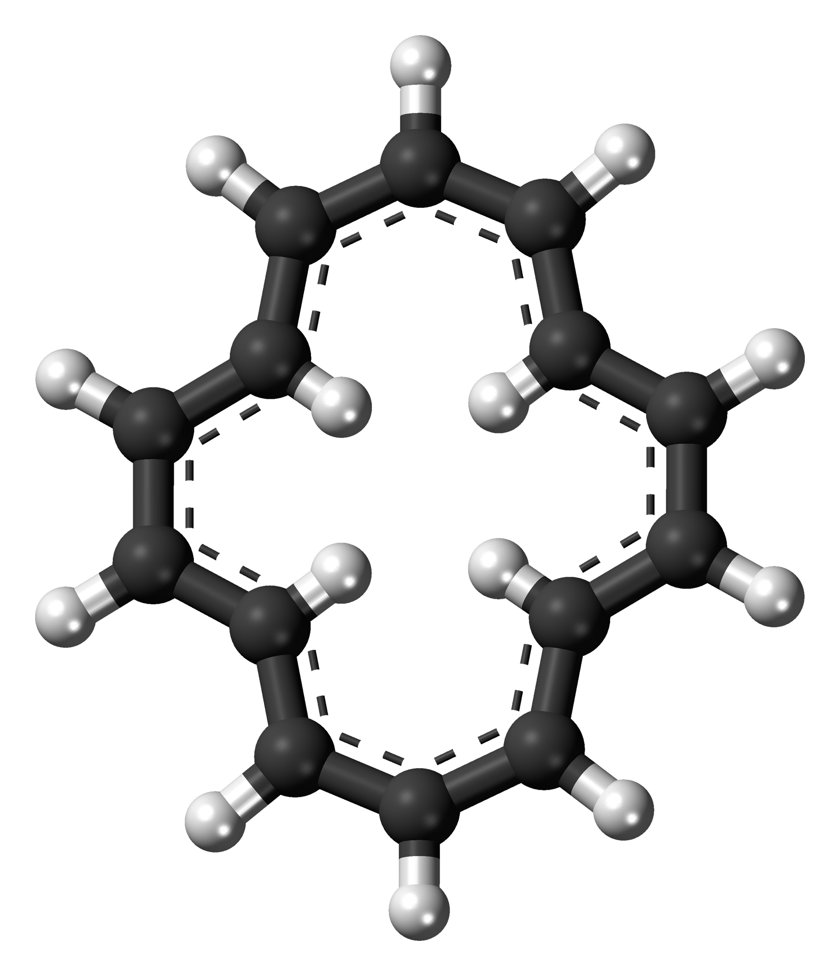 Ball-and-stick model of the [14]annulene molecule, an aromatic hydrocarbon of the annulene family. Colour code: Carbon, C: black Hydrogen, H: white